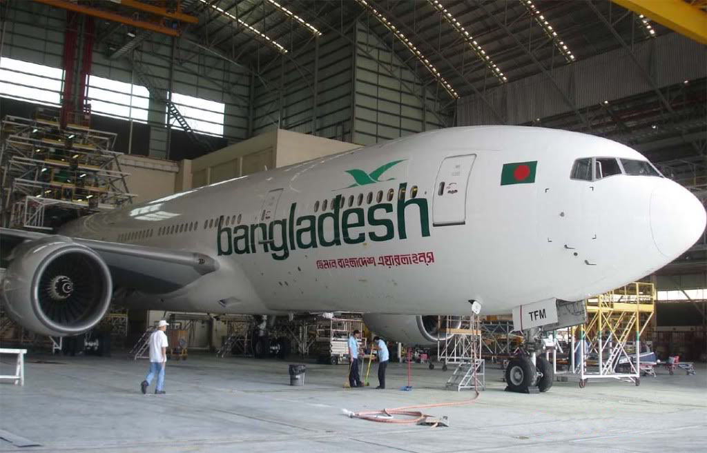 Biman's Boeing 777-200ER being checked over at Zia International Airport.